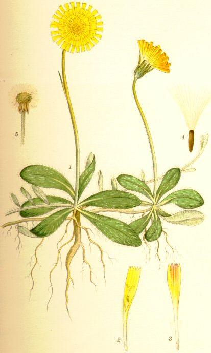 Pilosella officinarum (syn. Hieracium pilosella), "Mouse-ear hawkweed")